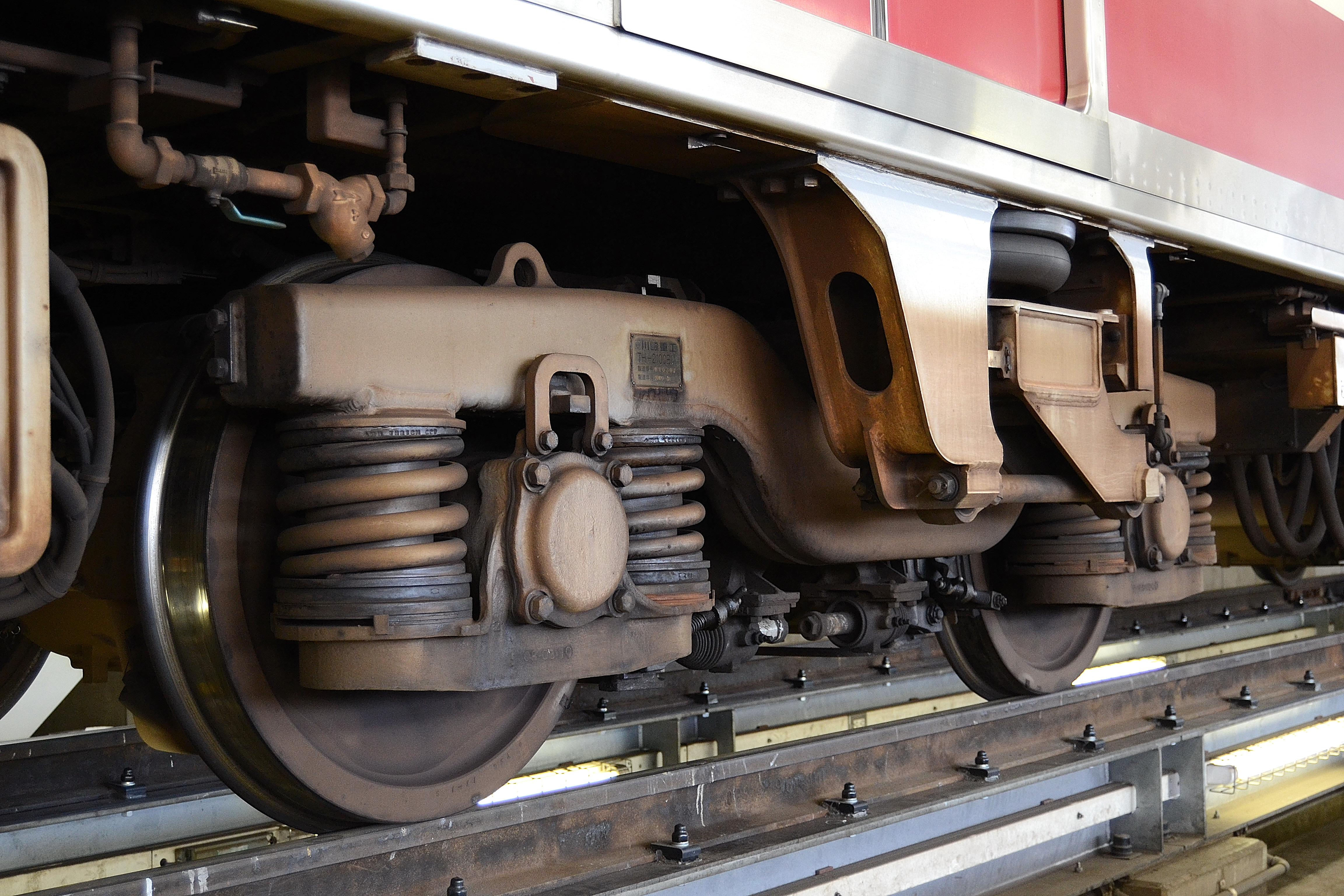 A TH-2100BM bogie of a Keikyu 1000 series EMU set at the Keikyu Fine-tec Kurihama Office open day